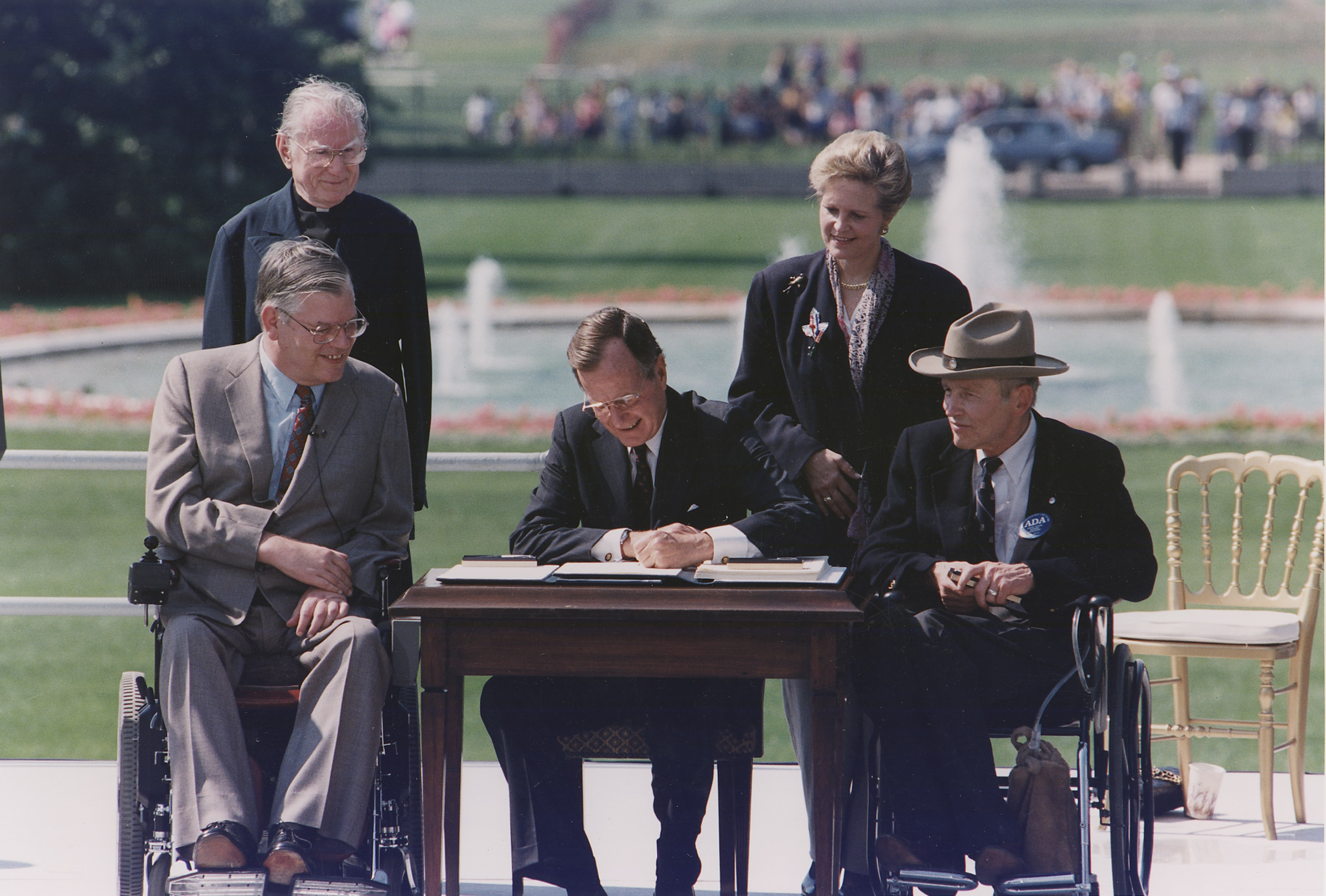 President George H. W. Bush signs the Americans with Disabilities Act of 1990 into law. Pictured (left to right): Evan Kemp, Rev Harold Wilke, Pres. Bush, Sandra Parrino, Justin Dart. President Bush signs the Americans with Disabilities Act on the White House South Lawn on July 26, 1990. The act prohibited employer discrimination on the basis of disability. Date: July 26, 1990